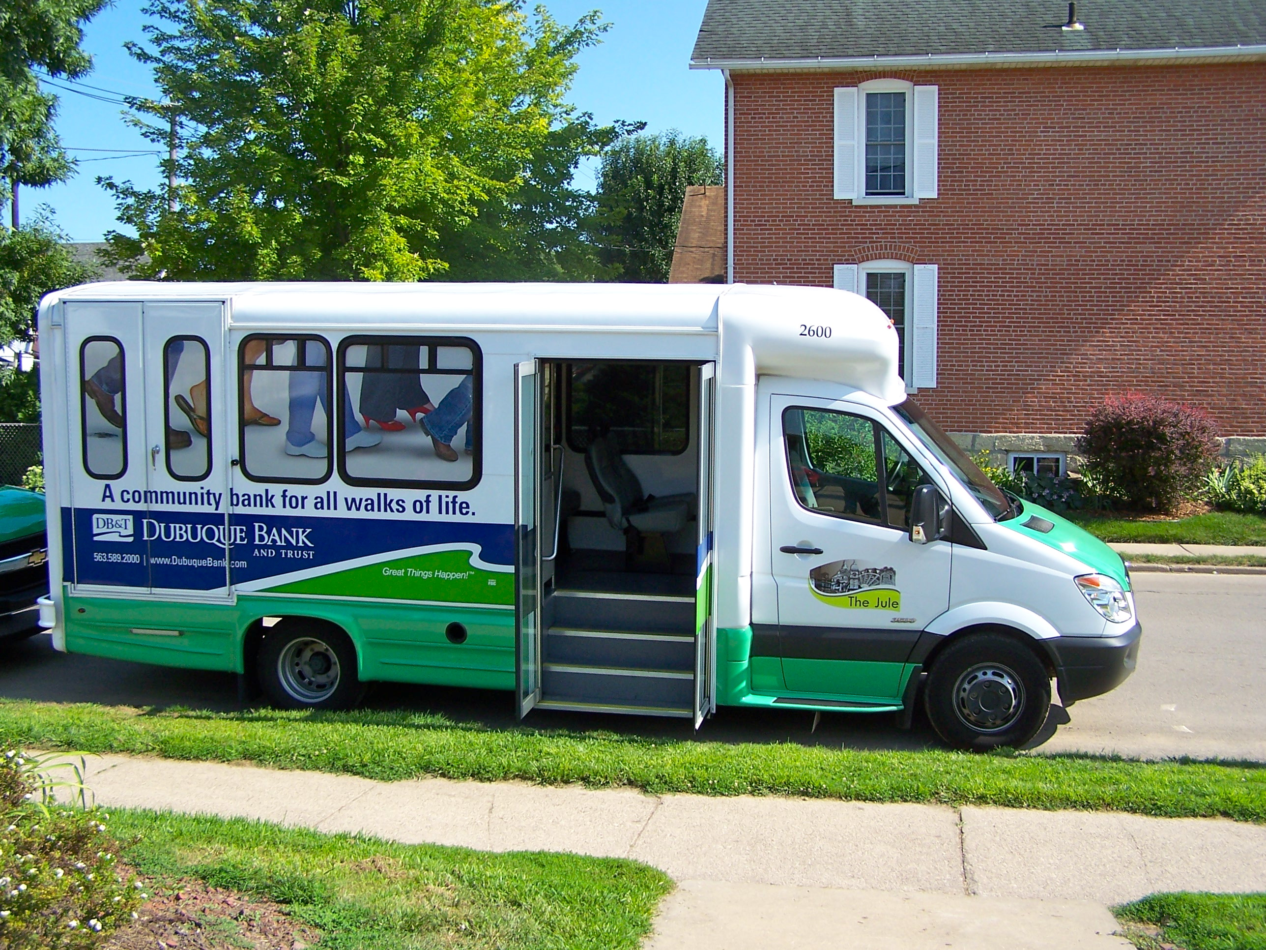 Jule Freightliner Sprinter paratransit bus (#2600).